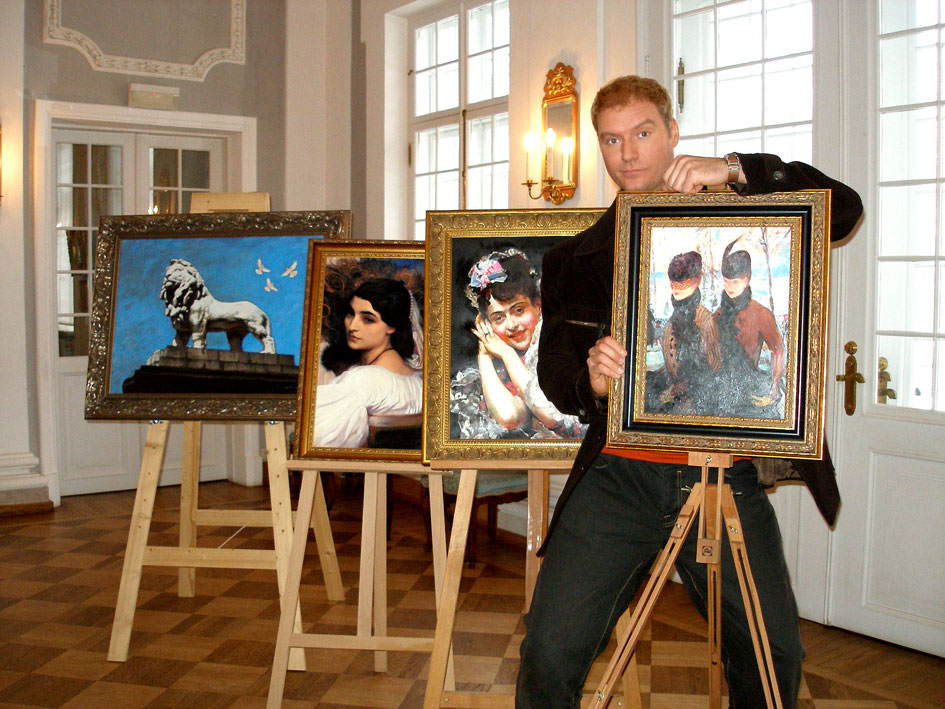 Mart Sander: copies of old masters. Estonian State Art Museum (Kadrioru Loss)